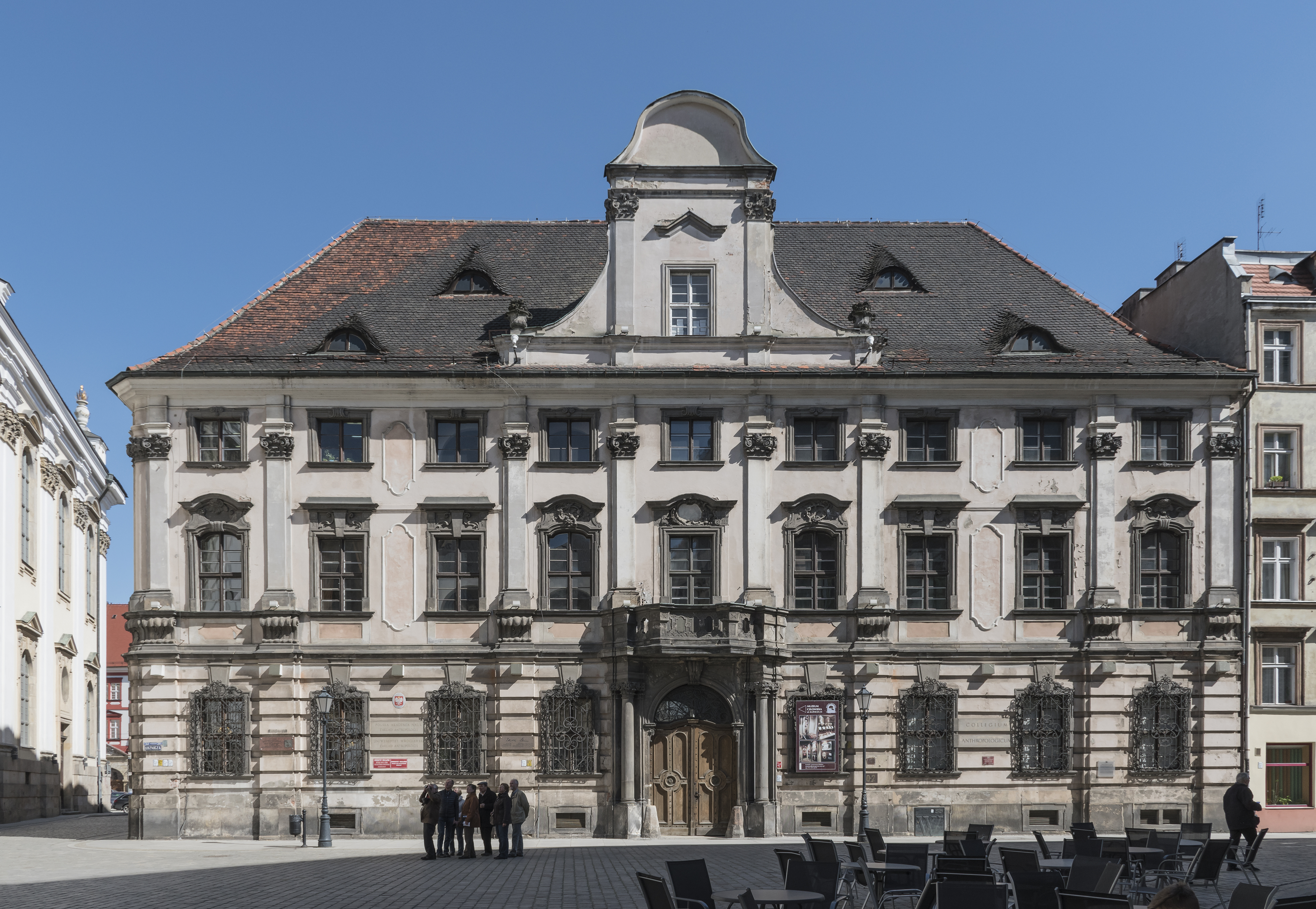 35 Kuźnicza Street in Wrocław